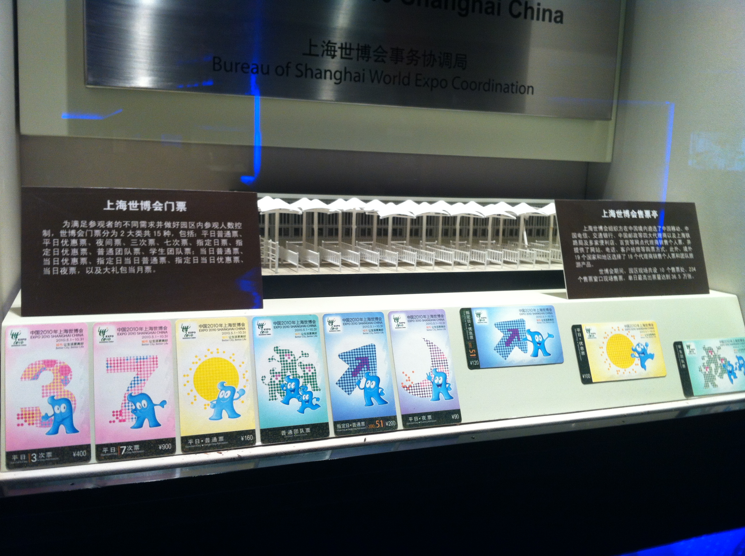 Tickets of Expo 2010中文（中国大陆）: 上海世博会门票（摄于世博会纪念展）